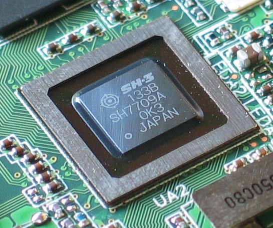 Hitachi SH-3 CPU (SuperH CPU core family) on a Hewlett-Packard Jornada 548 logic board. Author: Saxbryn Date of creation: September 21, 2007 Intended for: SuperH